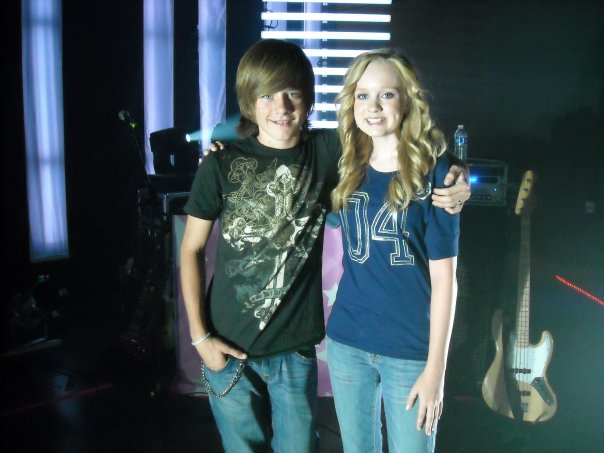 Lindee Link and Luke Benward in 2010.